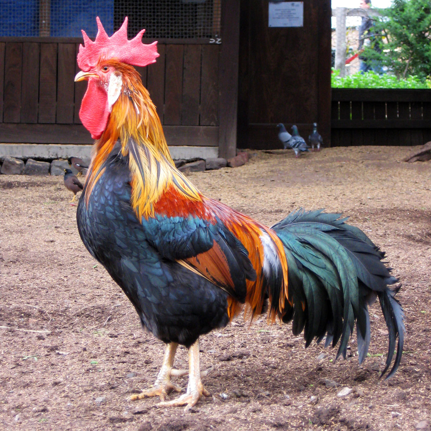 A Brown Leghorn rooster at Collingwood Children's Farm